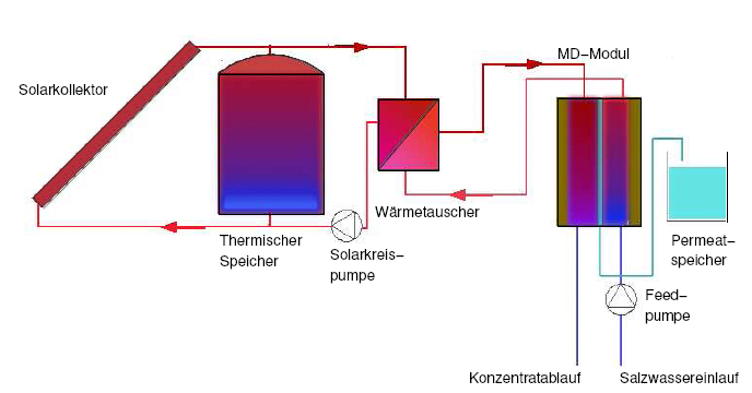 Anlagenschema eines Zweikreissystems